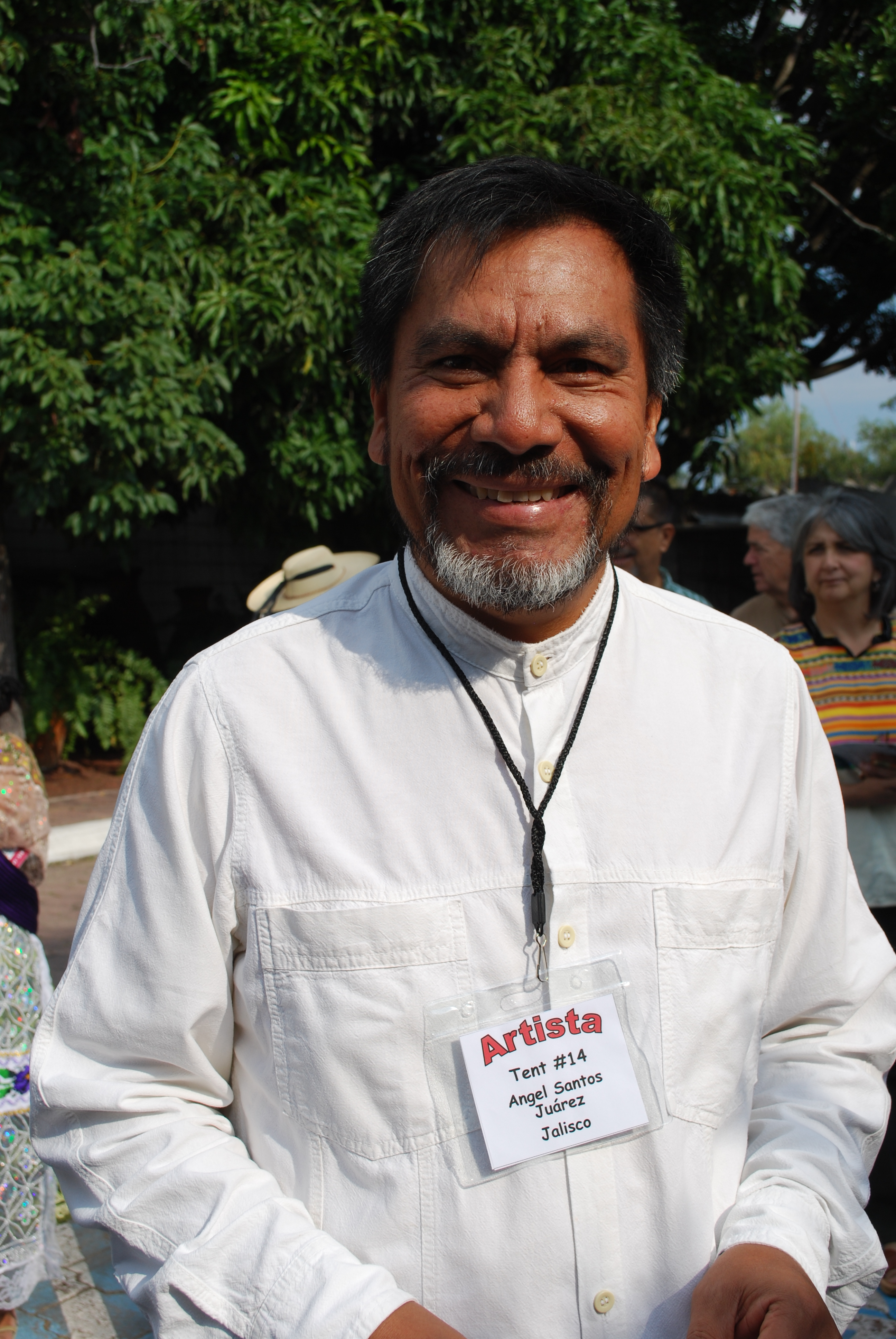 Angel Santos Juarez at the 2015 Feria Maestros del Arte in Chapala, Jalisco